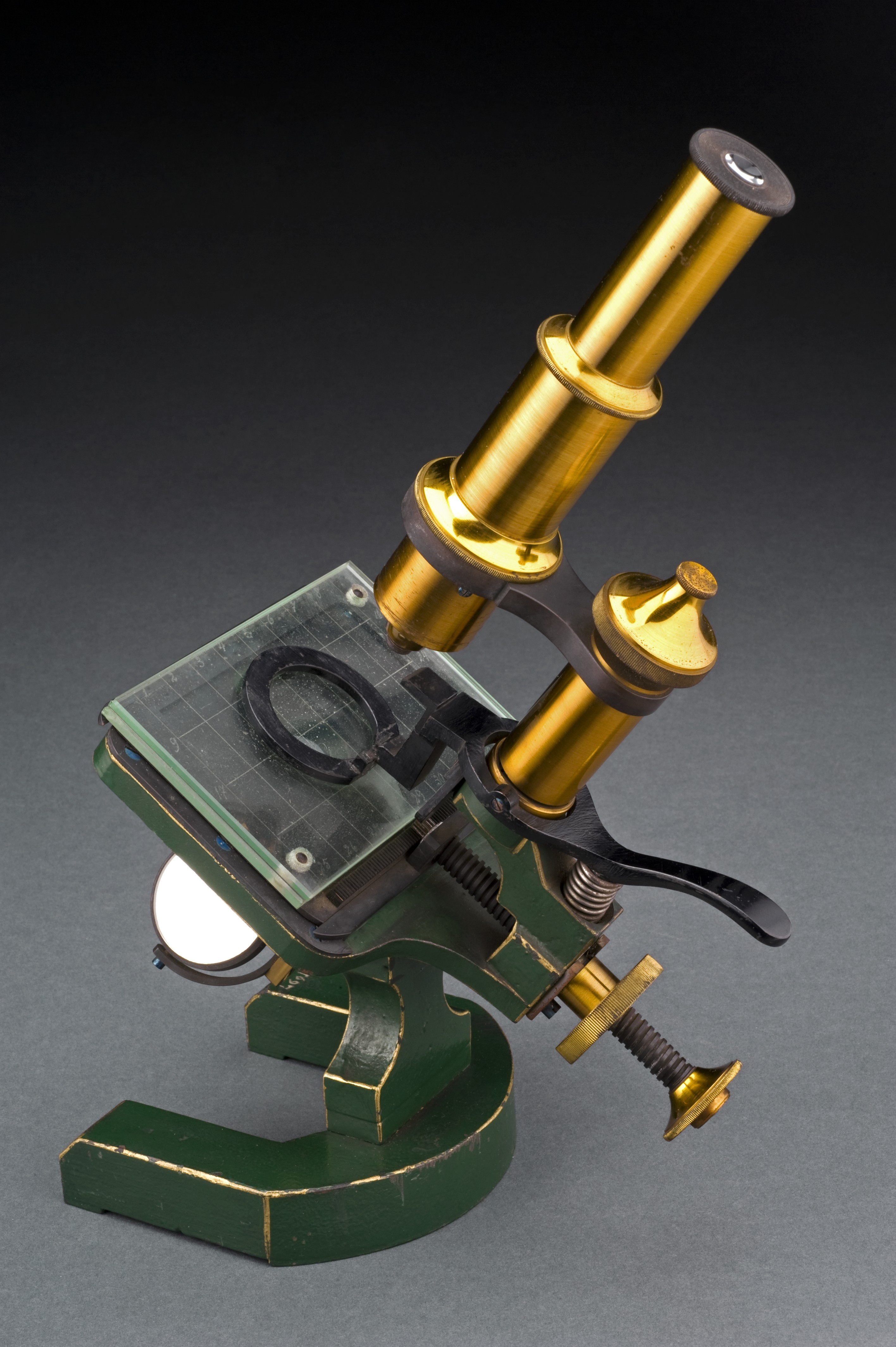 The inspection of meat was important due to the potential dangers associated with the product. For example, there have been numerous outbreaks of trichinosis due to poor meat hygiene. Trichinosis is an infection of the intestines that results in diarrhoea, muscle pains, fever, dehydration and swelling around the eyes. It is caused by a parasitic worm called Trichinella spiralis. Humans can swallow the larvae if it is present in raw or undercooked meat. Once in the stomach the worms hatch. Meat inspections in abattoirs are one way to prevent outbreaks of the disease. This microscope has a glass plate with a grid etched on to its surface, which would have allowed close, systematic examination of meat samples. maker: Unknown maker Place made: France Wellcome Images Keywords: compound microscope; trichinosis; monocular microscope; Larva